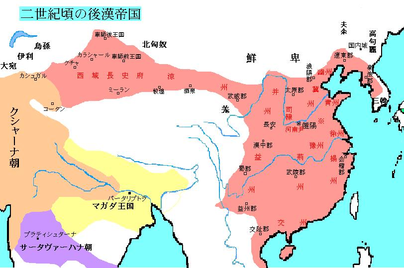 China Eastern Han 2nd century